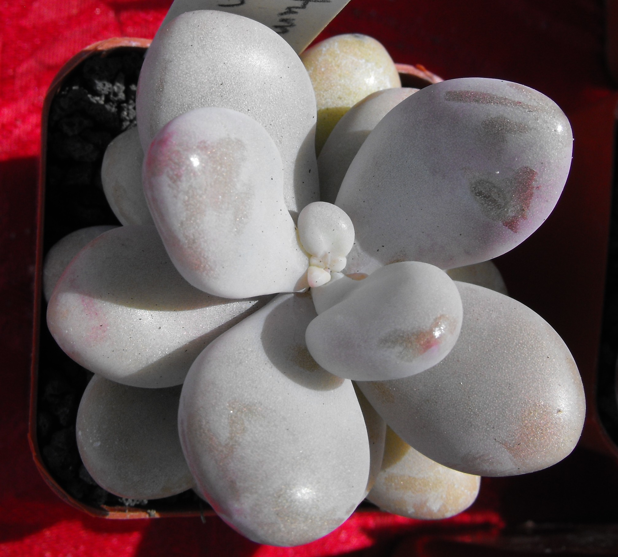 Pachyphytum oviferum at the San Diego Home & Garden Show, California, USA. Identified by exhibitor's sign.